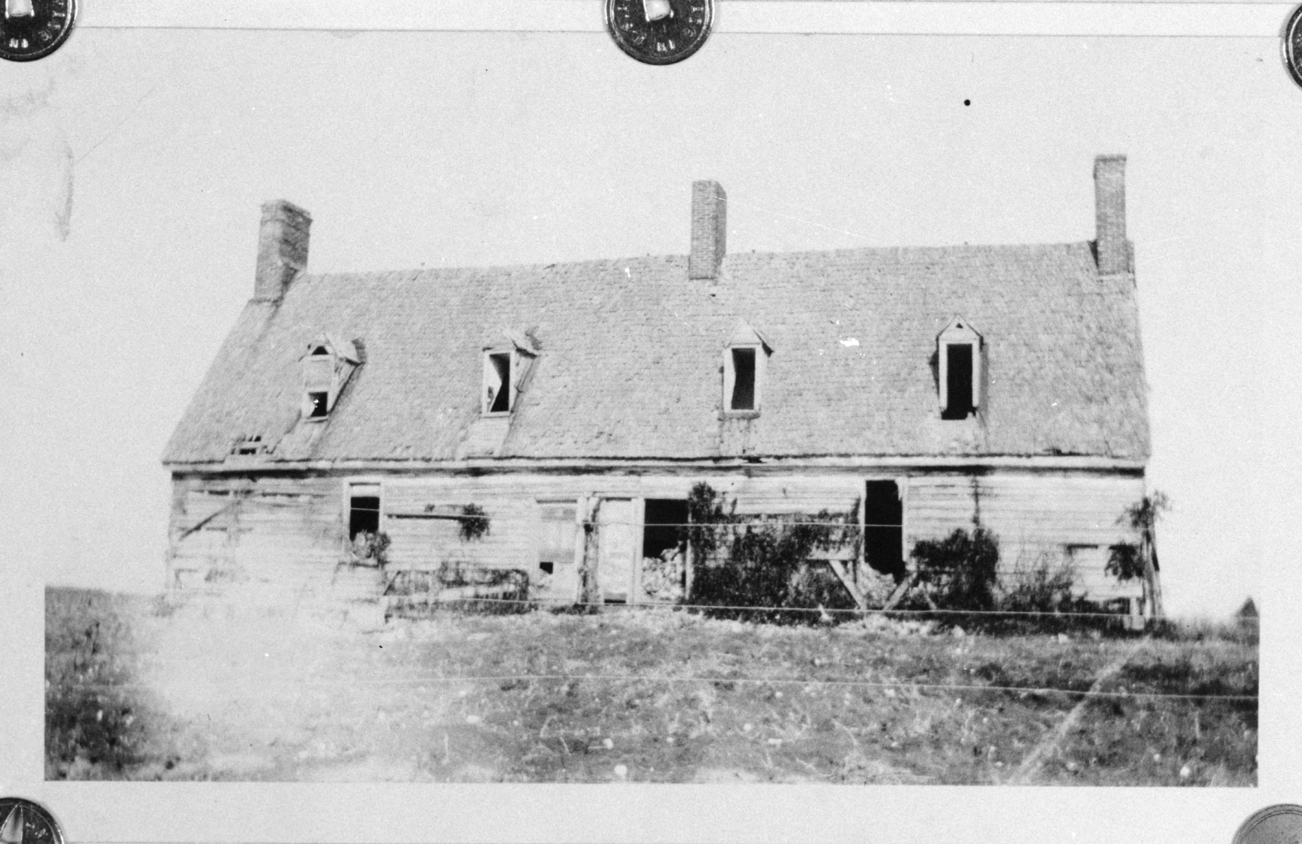 A photograph of the Spinster's House at Corotoman near Weems, Lancaster County, Virginia, United States.